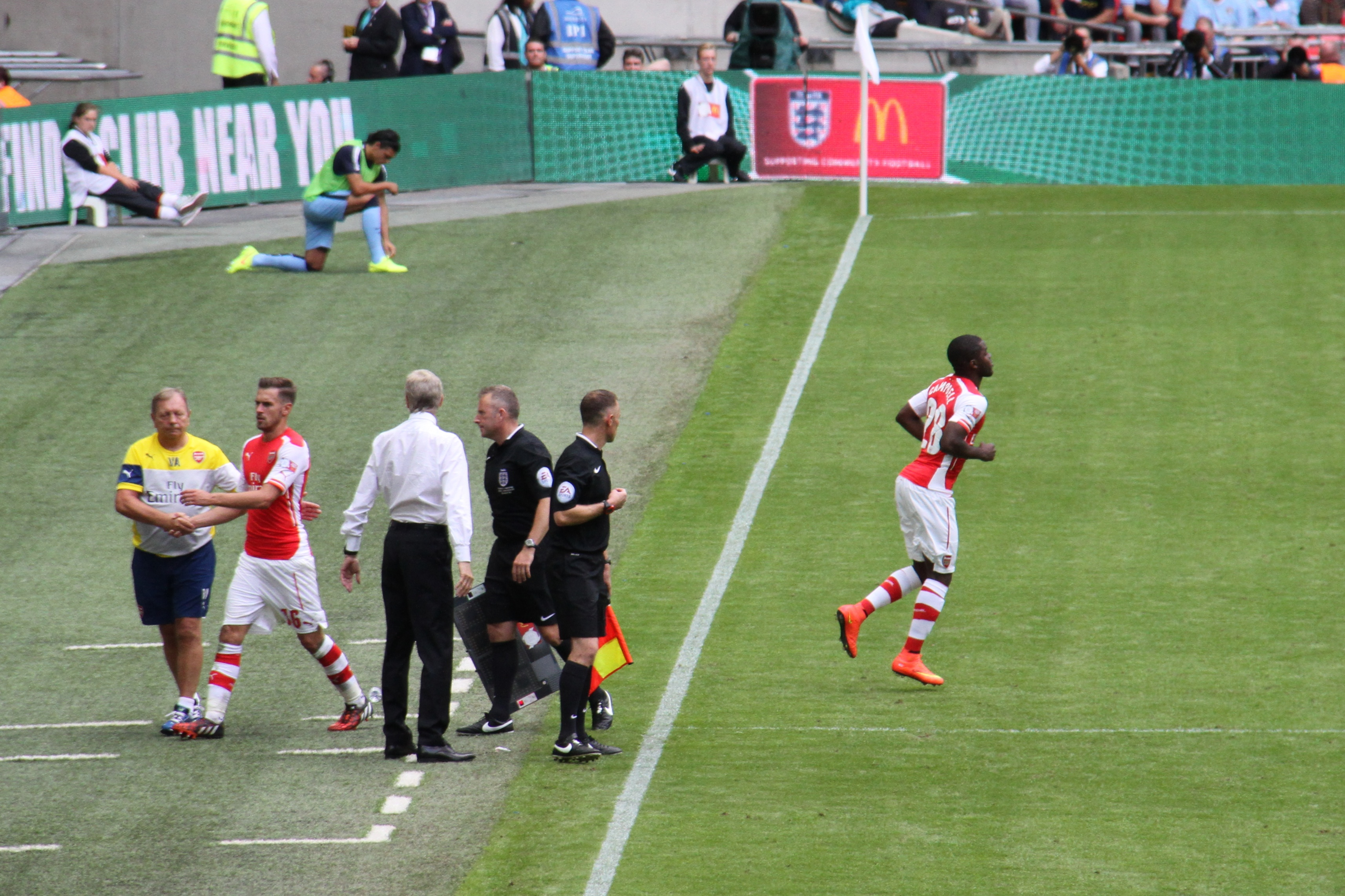 Community Shield 34 - Joel Campbell makes his debut